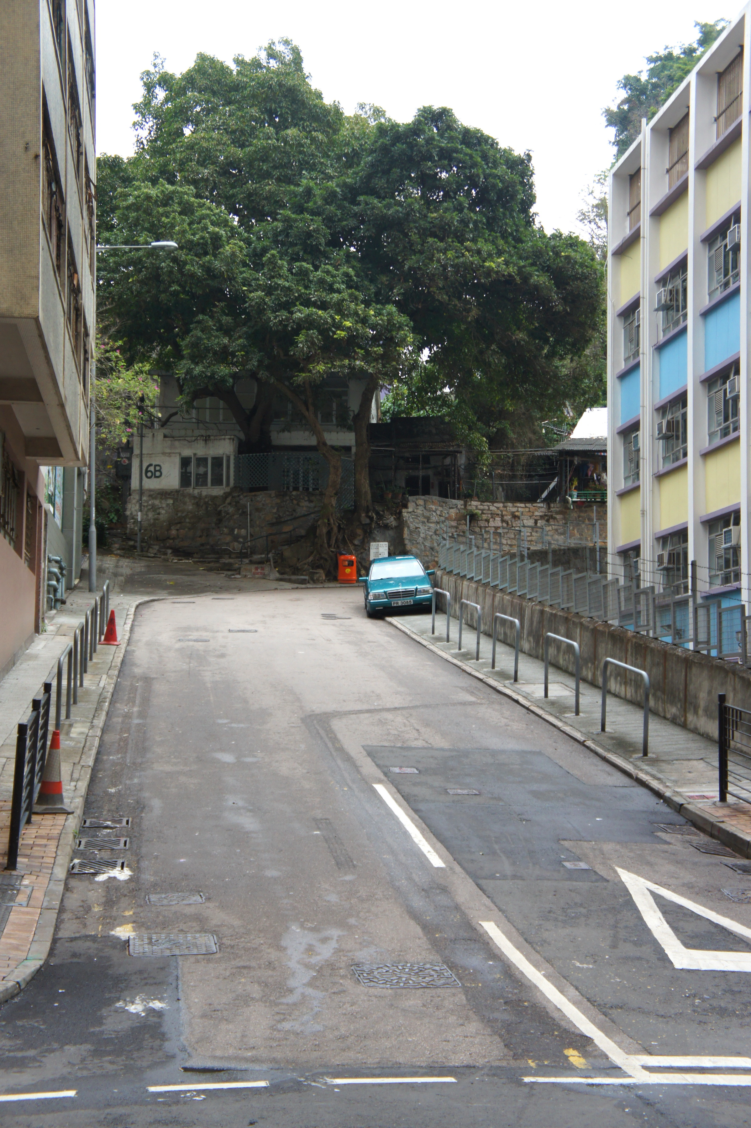 Basel Road, Shau Kei Wan, Hong Kong.